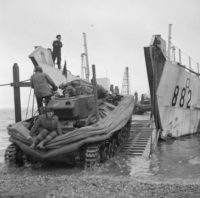 The British Army in the United Kingdom 1939-45 Valentine DD tank being reversed into a landing craft (LCT 882), 79th Armoured Division School, Gosport, 14 January 1944.